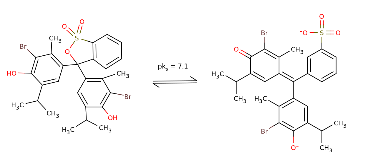 Bromothymol blue - protolysis equilibrium between acid and basic form